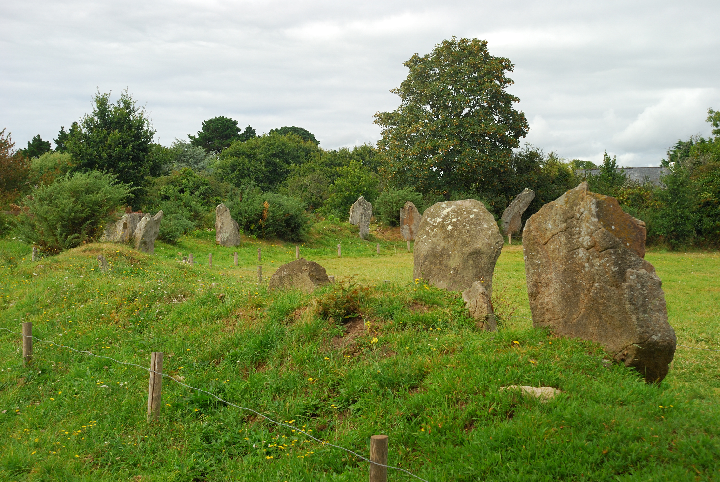 Ile-aux-Moines: Cromlech of Kergognan (Morbihan, France)